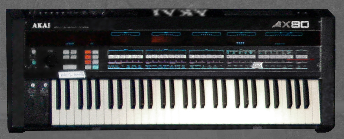 AKAI AX80 clipped from Shawn Rudiman's Studio, Pittsburgh, PA References Akai Professional AX80. AKAI Professional M.I. Corp. (1999–2005). (archived on ). “The oscillators were analogue but were 'digitally controlled' for better pitch stability and tracking.”Note: Gordon Reid 1996 described it as "VCOs rather than DCOs", however, his estimation seems lacking evidence. Akai AX80 -1984. Global Synthesizer Tech assistance. . "“Circuit Overview: ... exactly what those oscillators are...apparently DCO's as one would think with 16 of them. ... OK UPDATE. Meant to long ago. lol. I got schematics a while back and indeed this is the same type of circuit as the SX-240 etc. Programmable timers generating the base 'oscillations' in this one. ”"